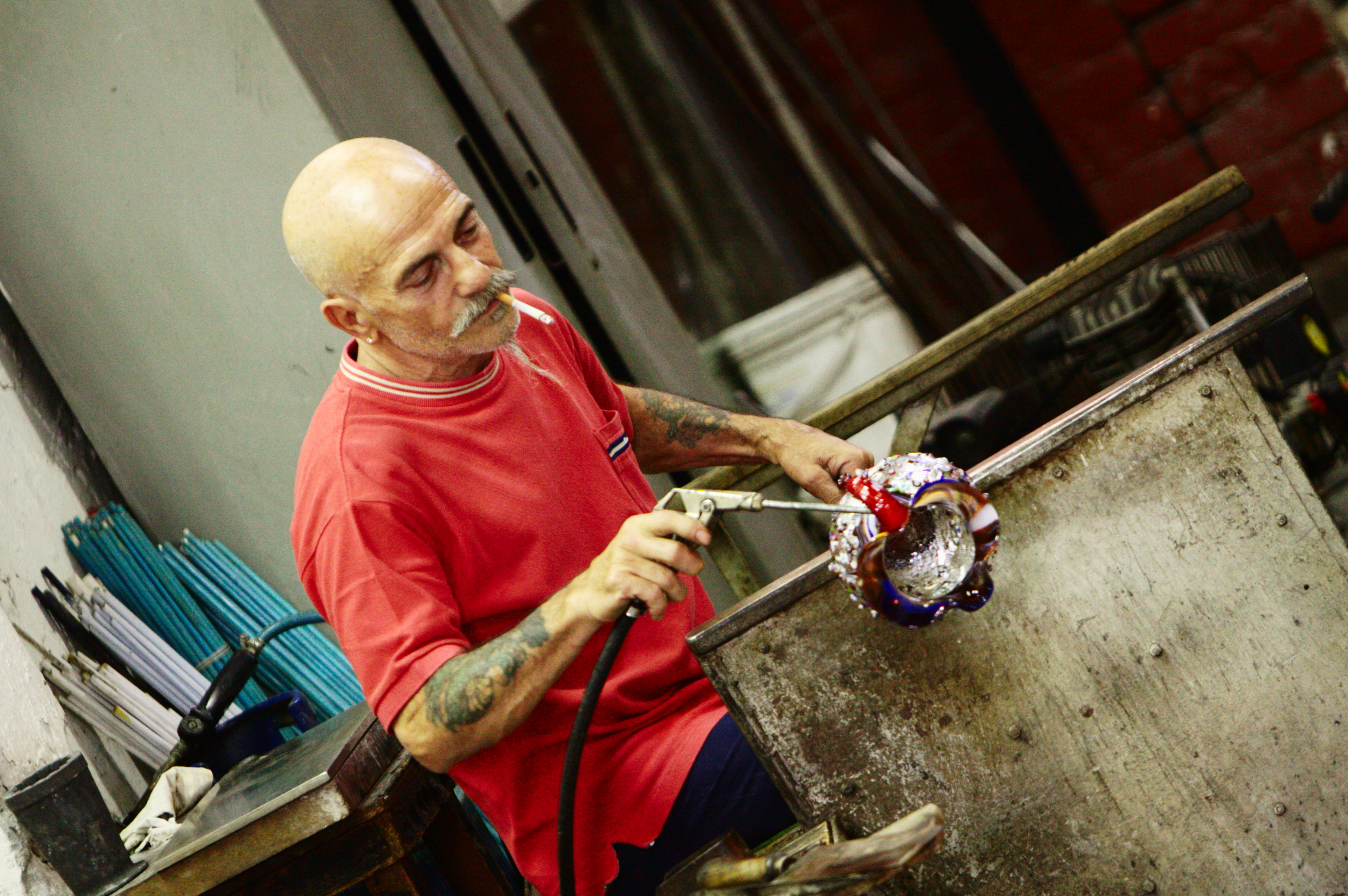 Vetreria Murano Arte glassmaker